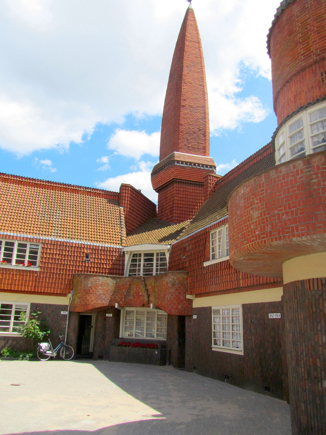 Apartment building Het Schip in Amsterdam, northern facade with tower and entrance to model apartment